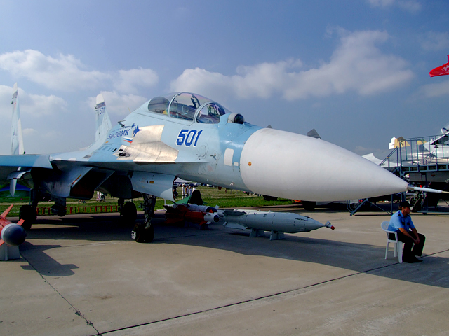 MAKS Airshow-2007. Su-30MK